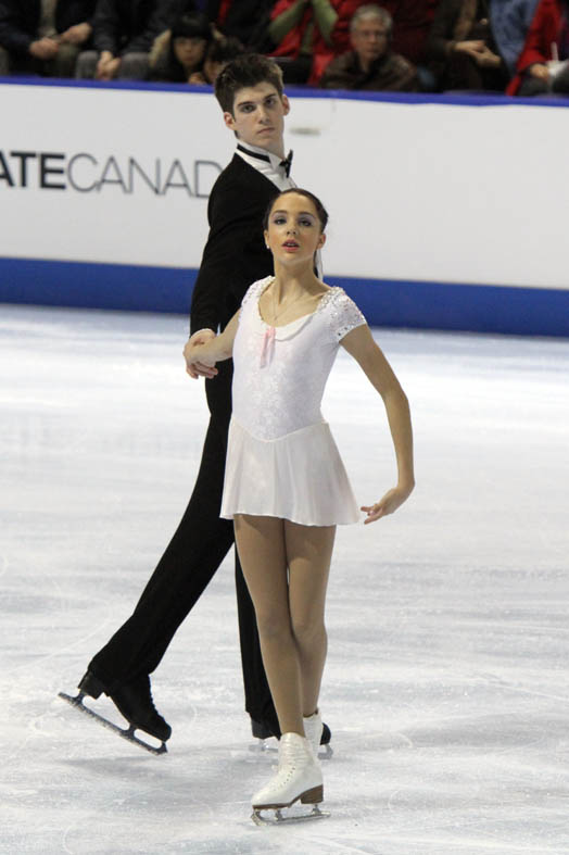 Brittany Jones and Kurtis Gaskell at the 2011 Canadian Figure Skating Championships